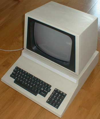 CBM 4016